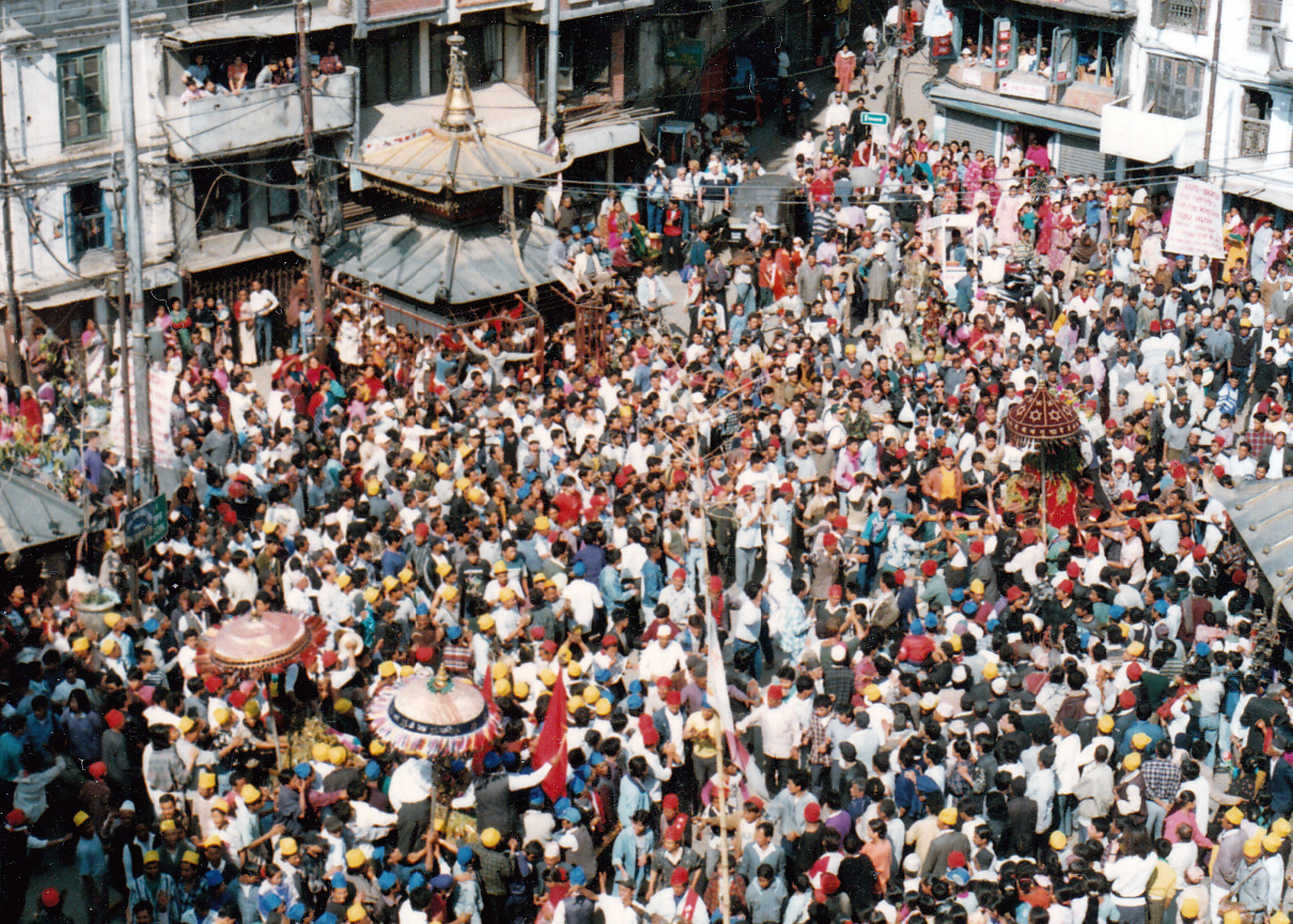 Asan Square is filled with revelers wearing red, blue and yellow caps representing different neighborhoods as three portable shrines are brought to Asan for the Dyah Lwakegu festival in Kathmandu.